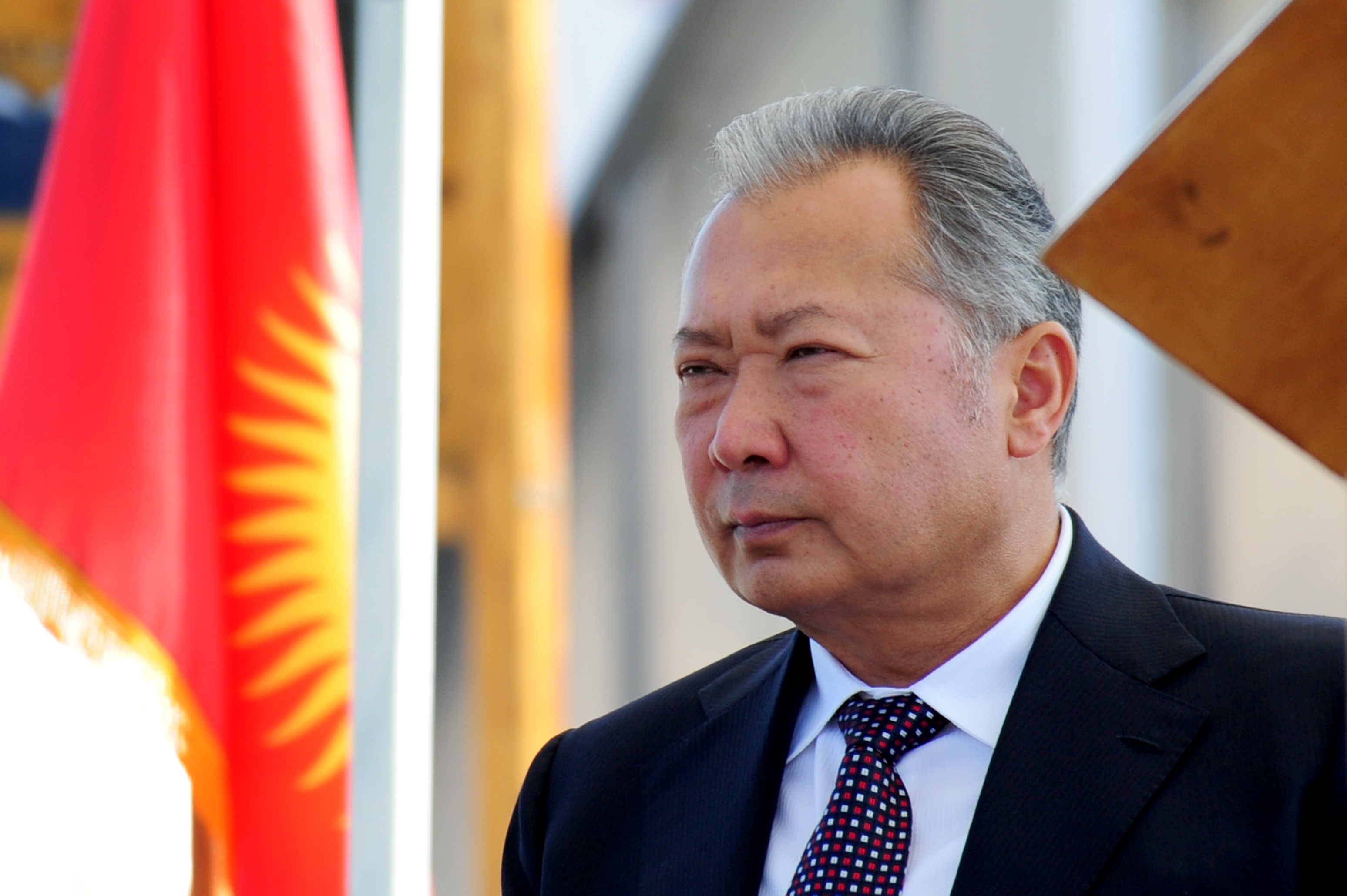 President of Kyrgyzstan, Kurmanbek Bakiyev, signs the guest book marking his visit to the Transit Center on September 11, 2009.